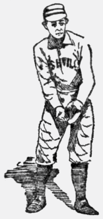 An illustration of baseball player William "Kid" Summers from the May 25, 1893, edition of The Nashville American